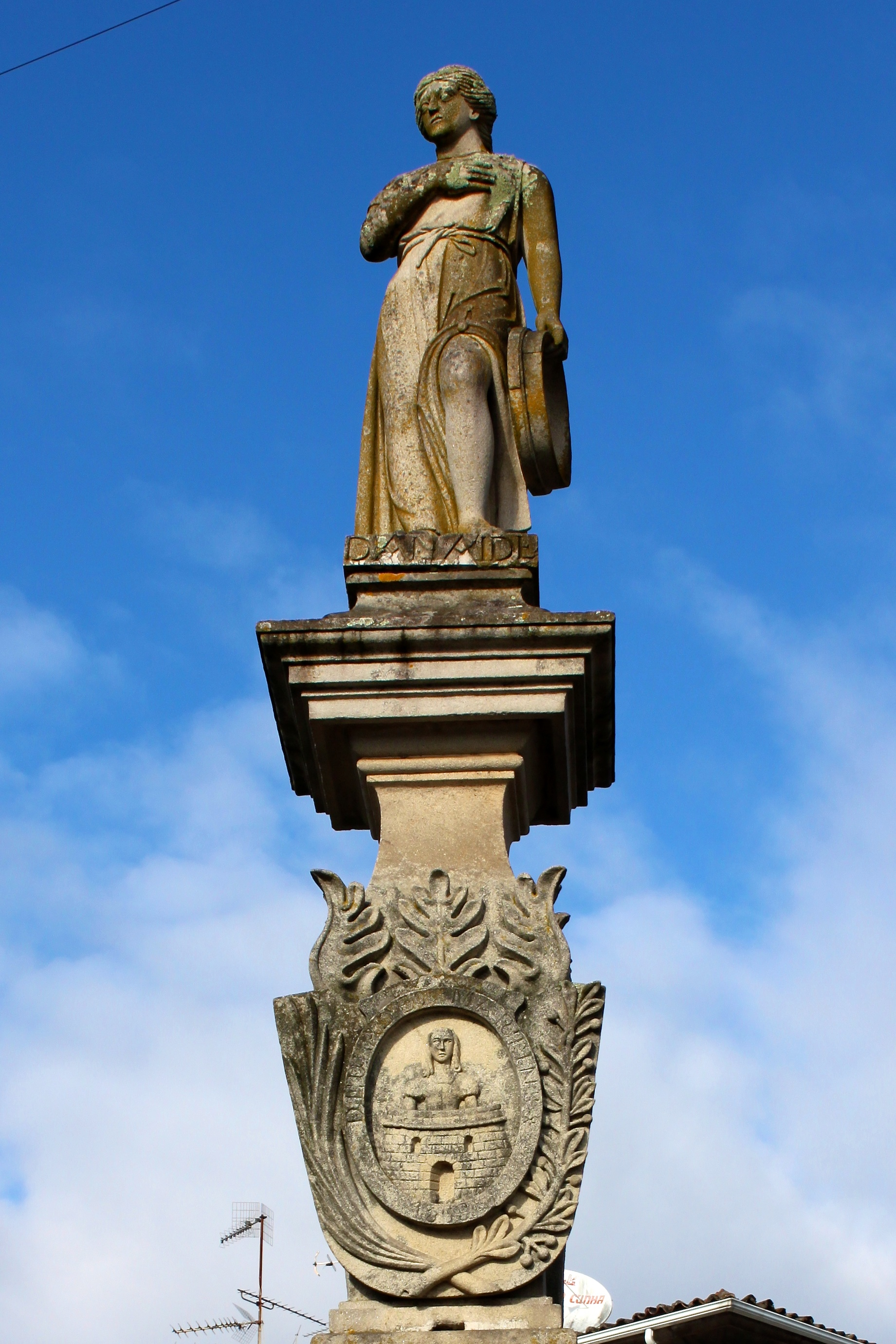 This file was uploaded for Wiki Loves Monuments in Portugal with the unique identifier 97006895.